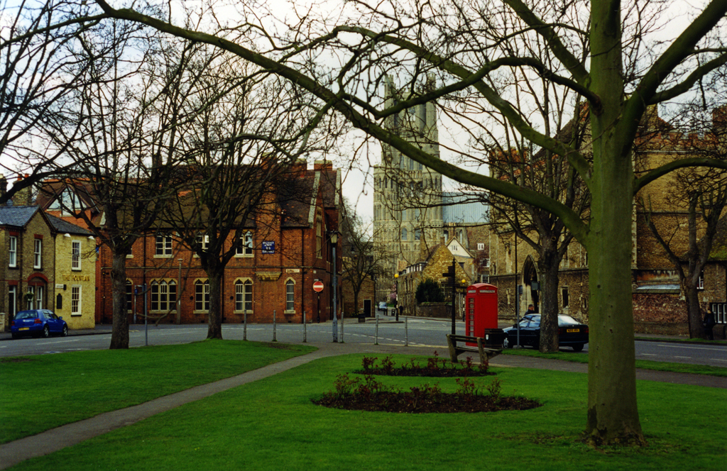 barton sq. Ely